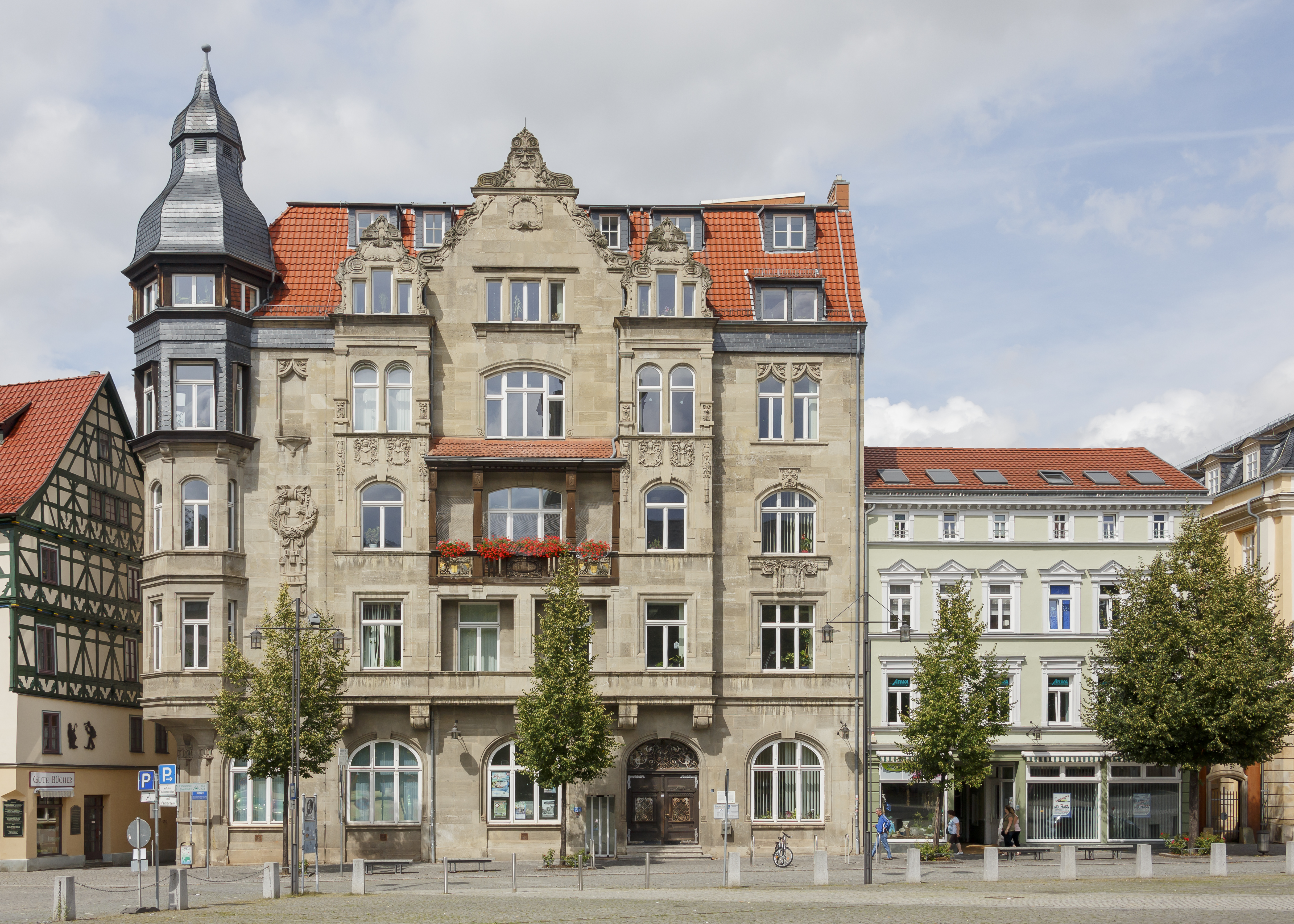 Eisenach, Germany: The Rautenkranz - it was the most representative hotel building at the central market place in Eisenach, but now a part of the city administration.